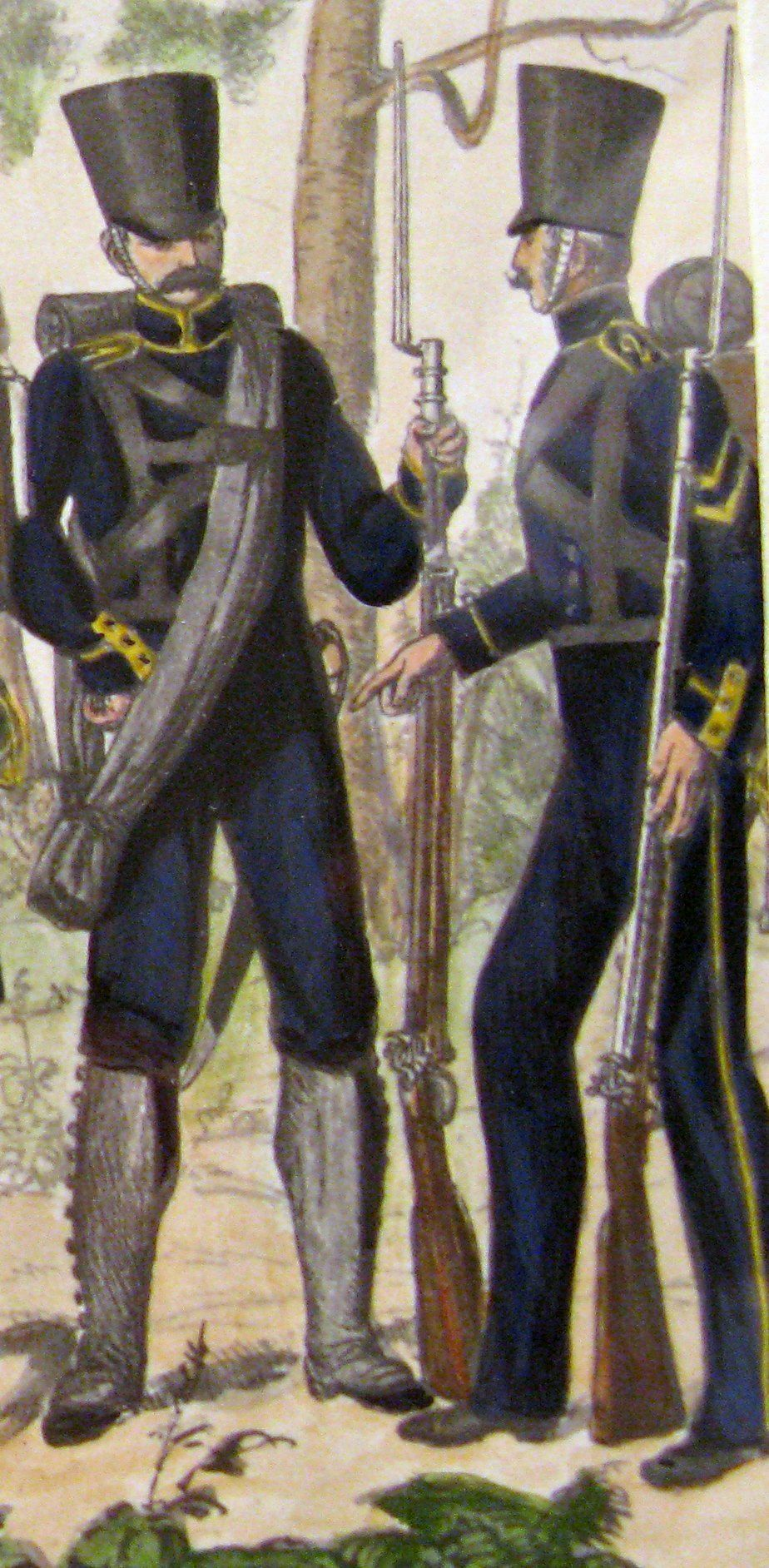 3rd, 4th Chasseurs à Pied Regiment of Polish Army of November Uprising